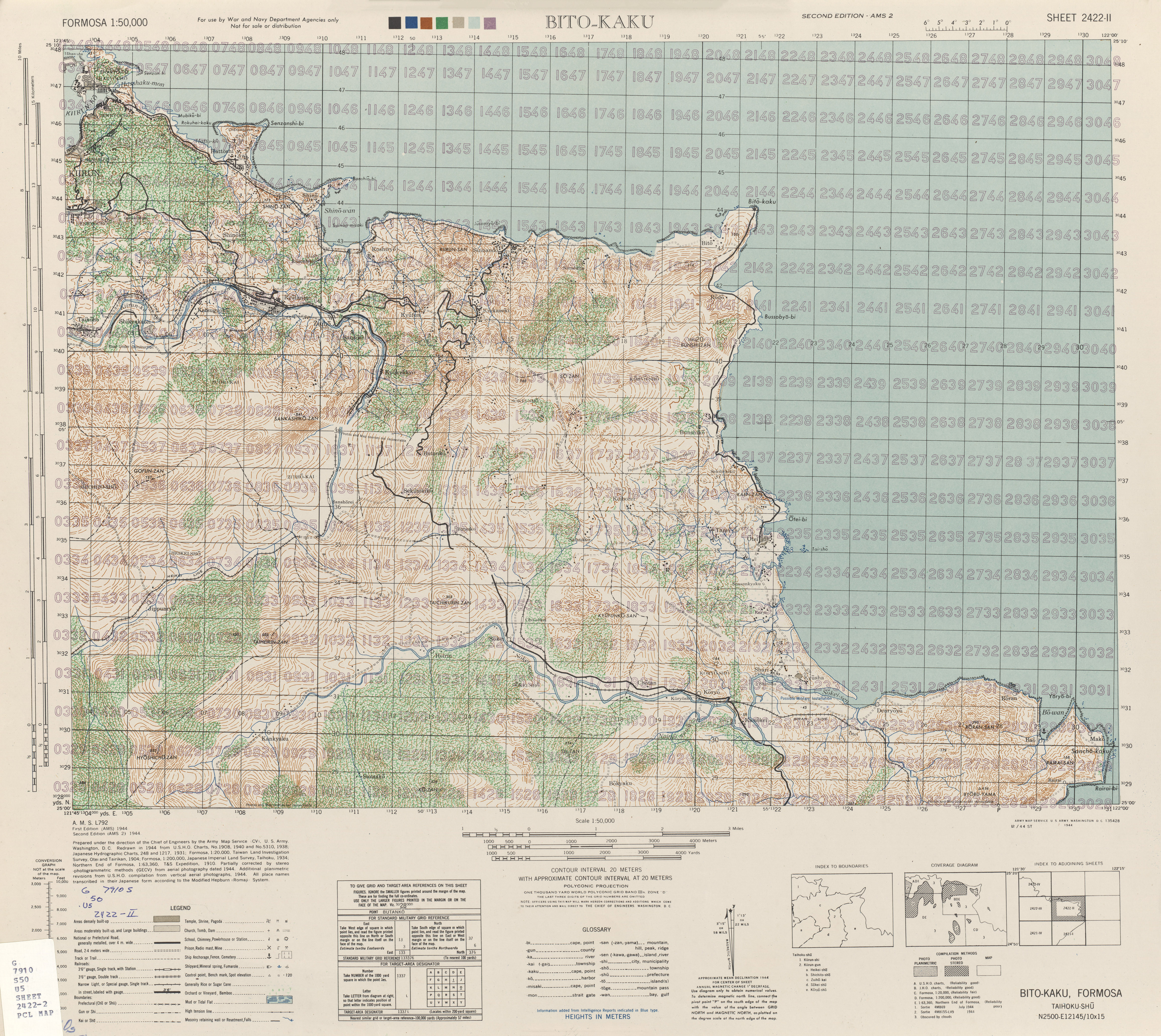 Map from Formosa (Taiwan) 1:50,000 AMS Series L792